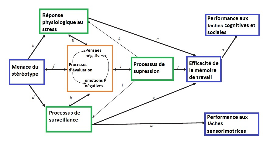 Process Model of Stereotype Threat